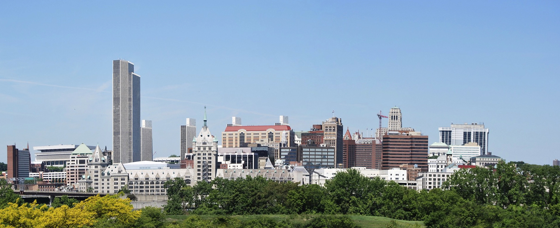 Skyline of Albany, New York, United States from Rensselaer